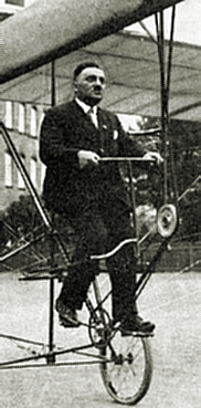 Zaschka and his human powered glider during 1934.